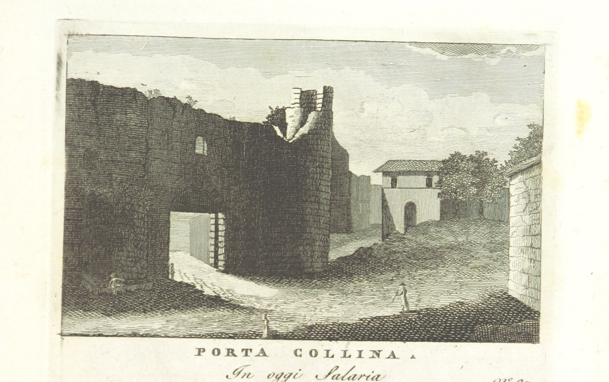 Title: "Vedute antiche e moderne le più interessanti della città di Roma, incise da vari autori, in numero 100. (Explication ... rédigée ... par E. Piale.)", "Appendix. Topography" Contributor: PIALE, Stefano. Author: Rome (Italy) Shelfmark: "British Library HMNTS 10131.h.1." Page: 87 Place of Publishing: Rome Date of Publishing: 1820 Publisher: V. Monaldini Issuance: monographic Identifier: 003147404